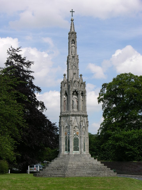 Fake Eleanor Cross, Sledmere, East Riding of Yorkshire, England.This is a fake Eleanor Cross... the original 12, of which only two remain at Waltham Cross, Geddington and at Hardingstone, were erected in memory of Eleanor of Castile, wife of Edward I. When she died, Edward had the twelve crosses erected along the route of her funeral procession between Lincoln and Westminster Abbey. During the 19th and 20th centuries several fake Eleanor Crosses were erected.